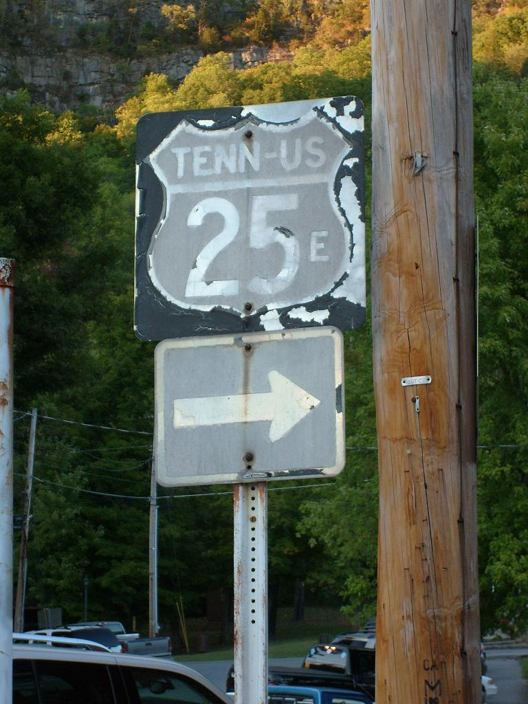 This is a remnant from when US 25E was routed through Cumberland Gap, TN before the Cumberland Gap Tunnel opened in 1996. It is at the corner of Brooklyn Street and Colwyn Street, right next to the U.S. Post office.